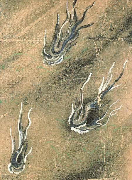 Kitsunebi (狐火, Will-o'-the-wisp) from the Bakemono-tsukishi-emaki (化け物尽くし絵巻)